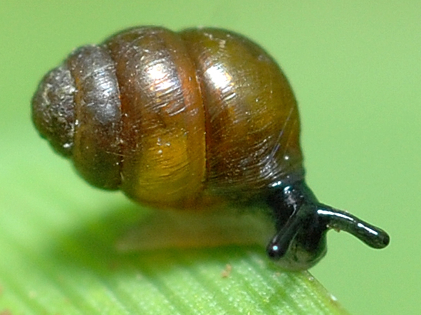 photo of Vertigo moulinsiana.